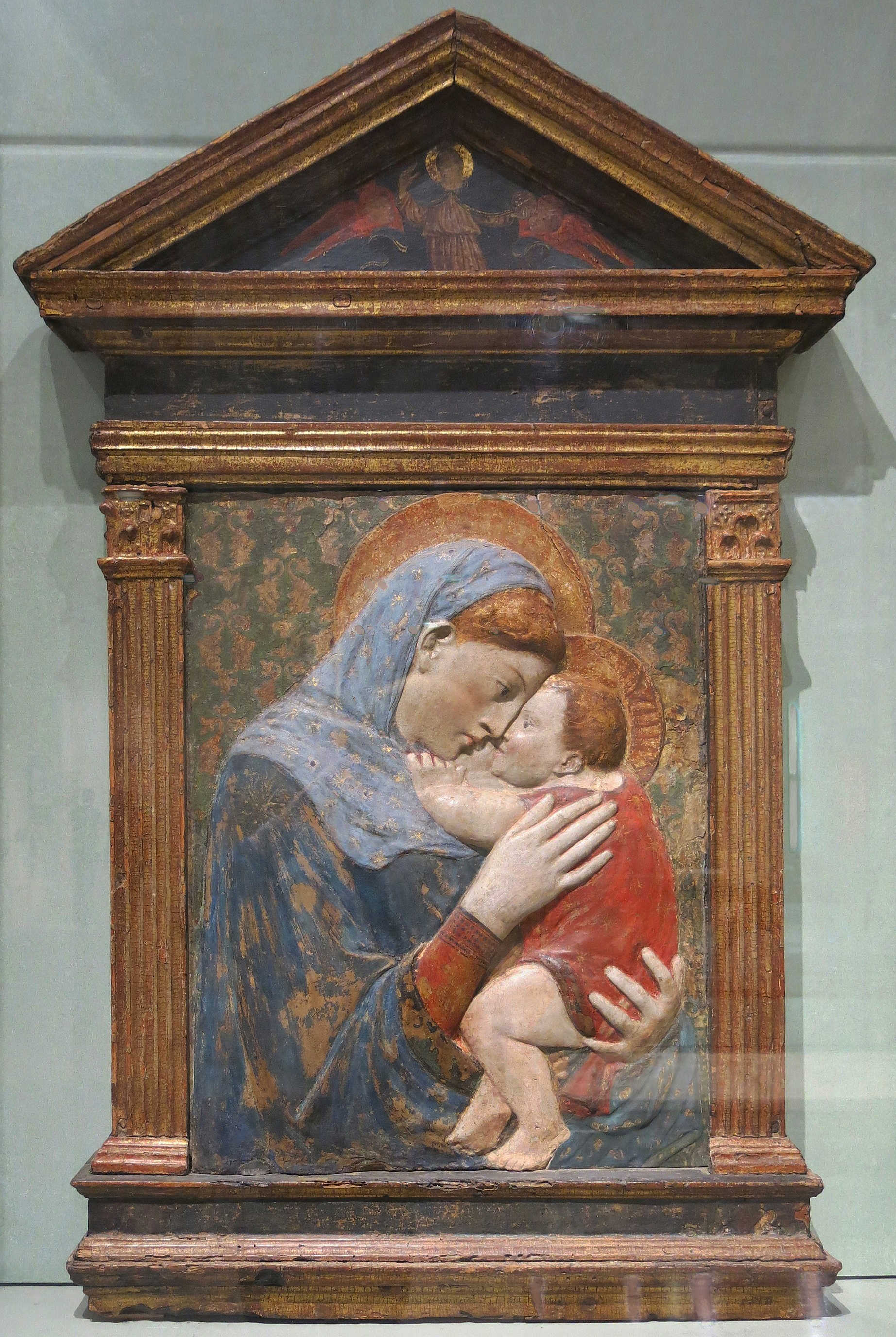 Virgin and Child, Madone Pazzi. Circa 1450. Donatello. Purchase 1886. Louvre museum (Paris, France).